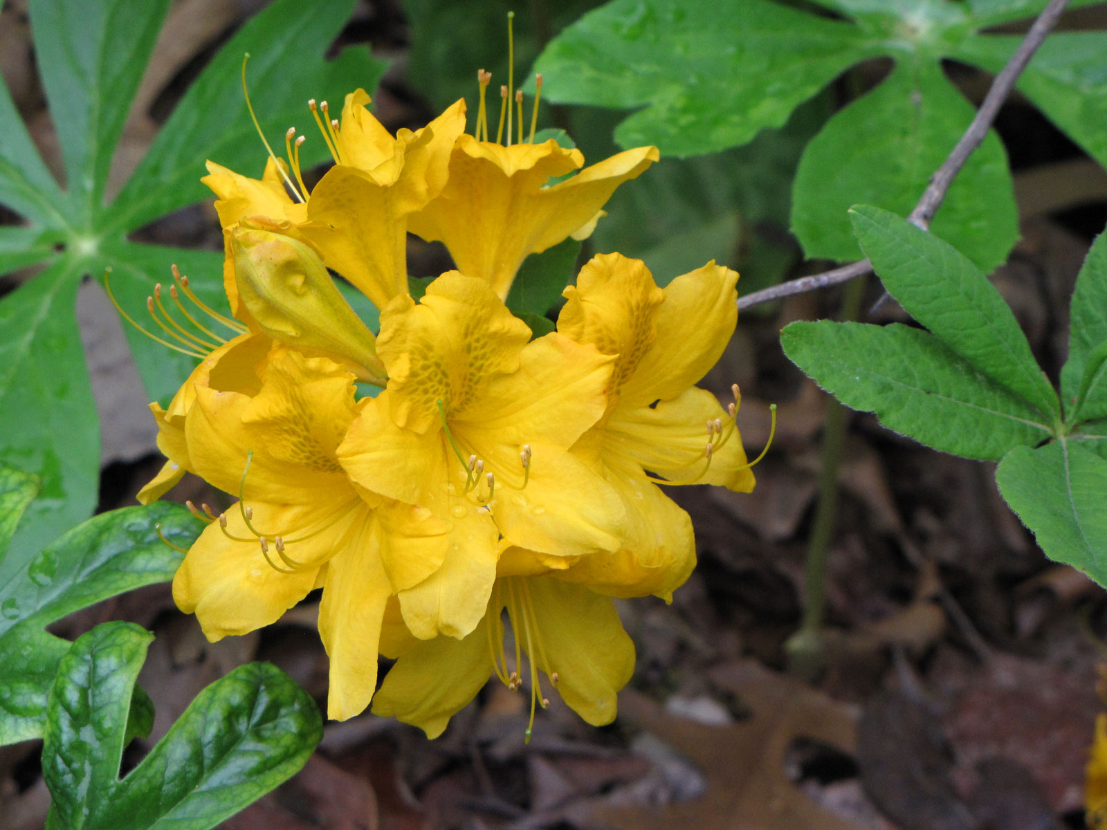 Rhododendron molle, cultivated. United States National Arboretum, Washington, DC, USA. 24 April 2010.